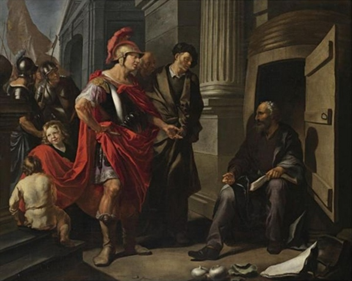 Alexander the Great and Diogenes